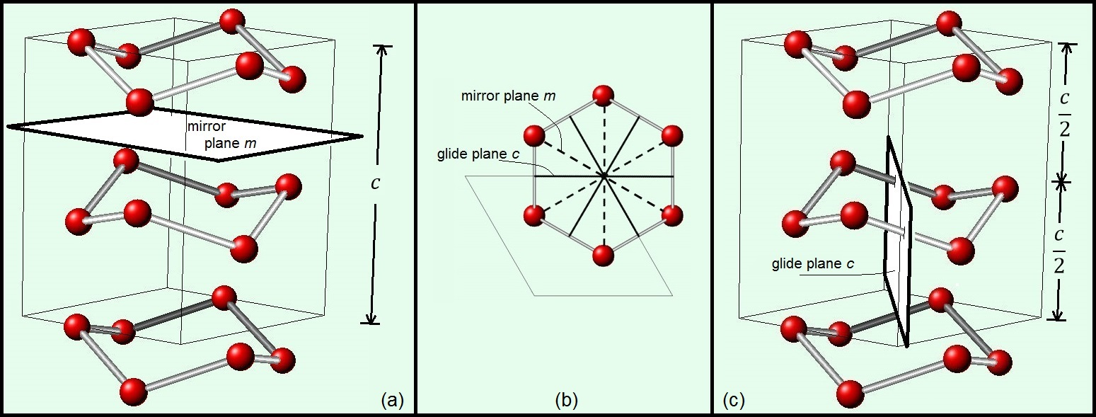 The space group of hexagonal ice is P63/mmc. The first m indicates the mirror plane perpendicular to the c-axis (a), the second m indicates the mirror planes parallel to the c-axis (b) and the c indicates the glide planes (b) and (c).